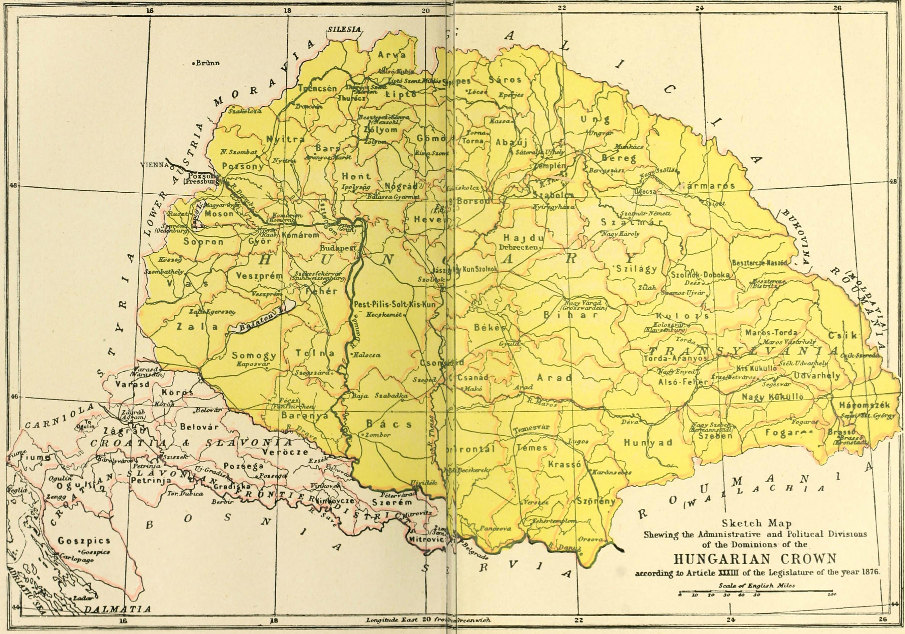 Header: VOL.XII Hungary Plate IICaption: Sketch Map Shewing the Administrative and Political Divisions of the Dominions of the HUNGARIAN CROWN according to Article XXXIII of the Legislature of the year 1876. A two-page map of Hungary (yellow), Croatia and Slavonia (pink outline), and the Croatian-Slavonian Frontier District (pink outline) within the Austro-Hungarian Empire c. 1876. NOTE that some of the image has been duplicated, marred, or lost in the gutter between the two pages of the current scan.